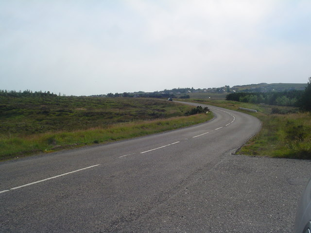 B895 at Blackwater. A corner on the stretch of road between Newmarket and Tong. This corner is one of the most dangerous in the Western Isles. Several people have been killed here. The road crosses the Abhainn Dubh at the Armco barrier.